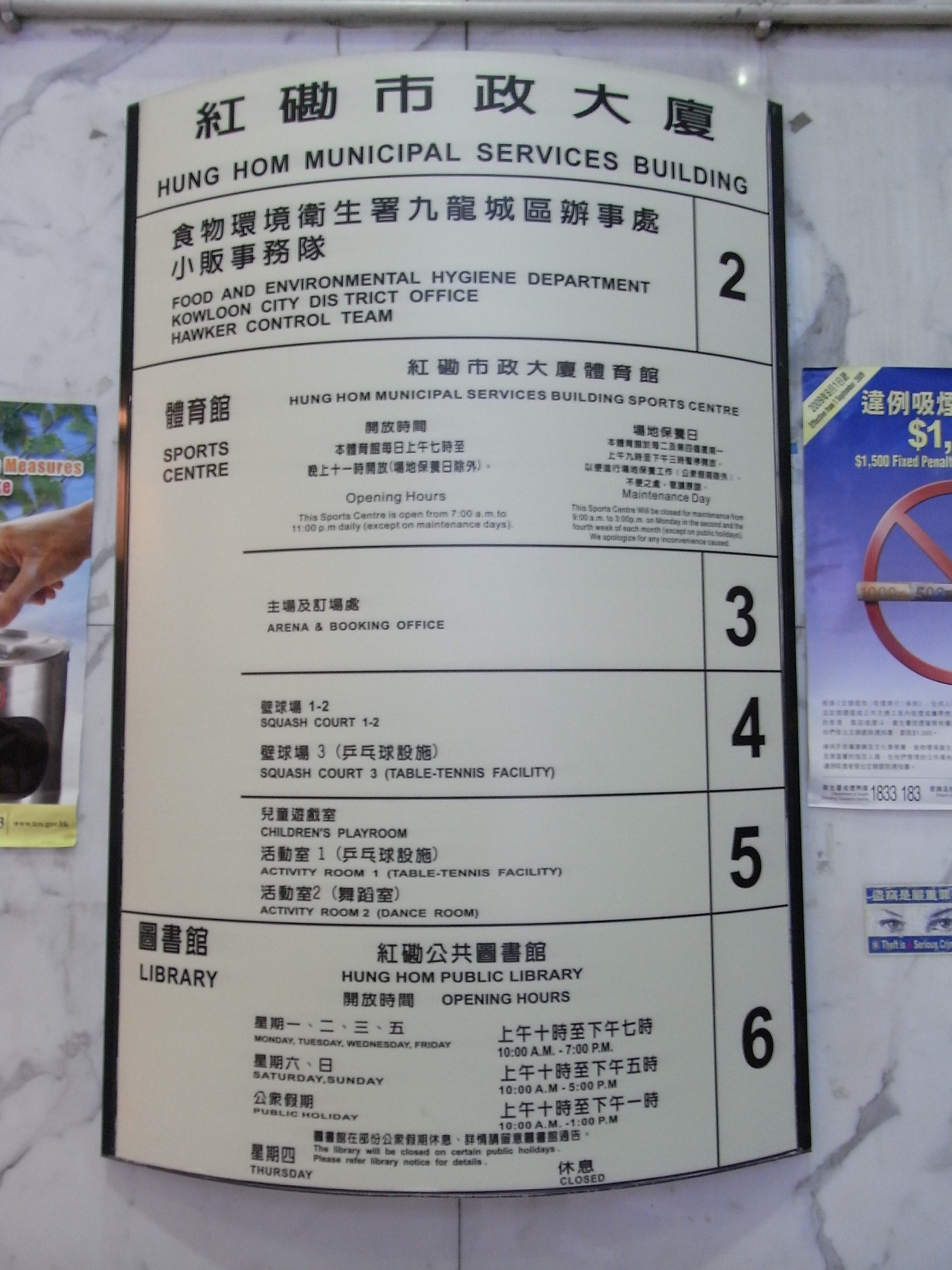 紅磡 紅磡市政大廈